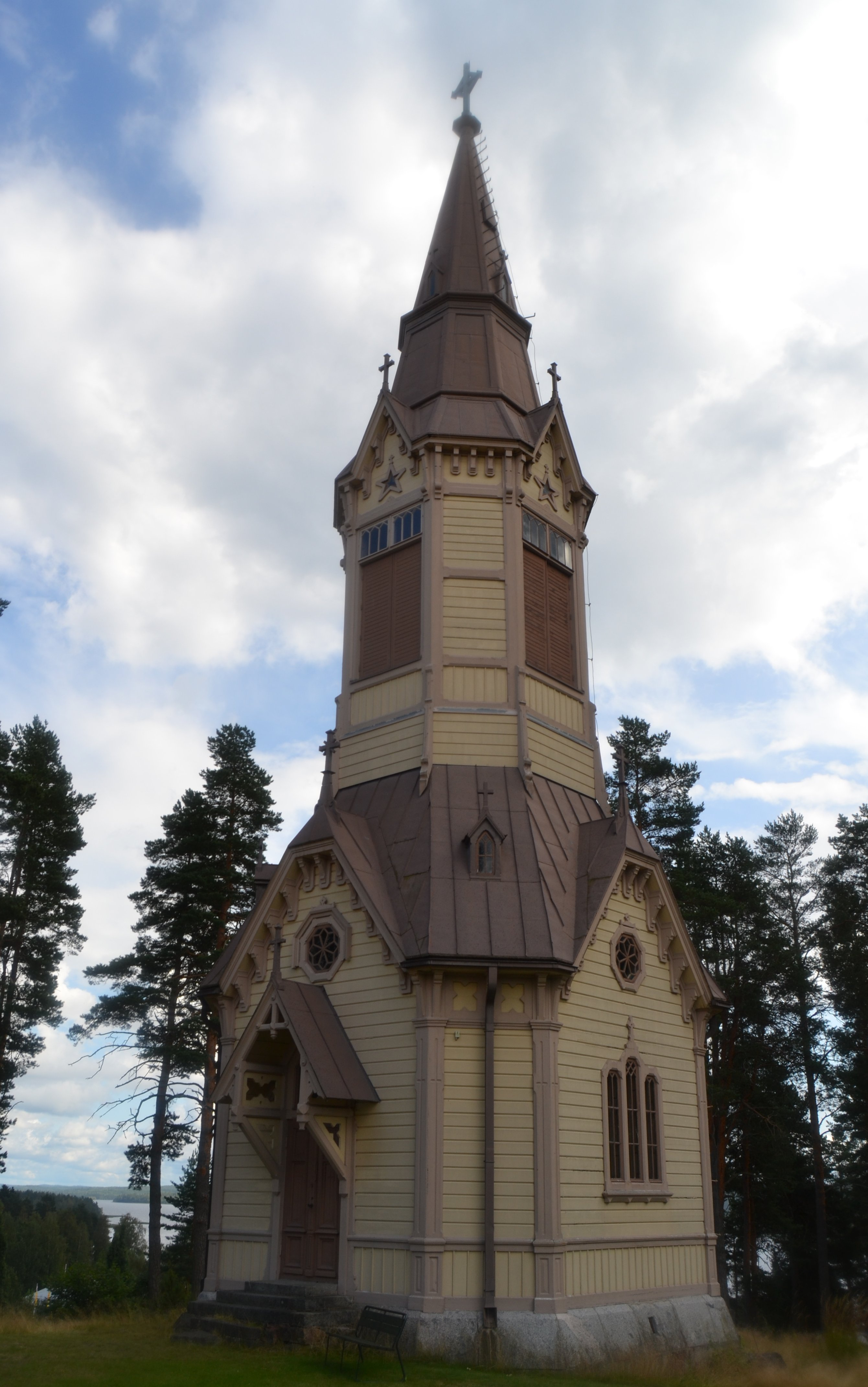 Korpilahti bell tower in Jyväskylä, Finland